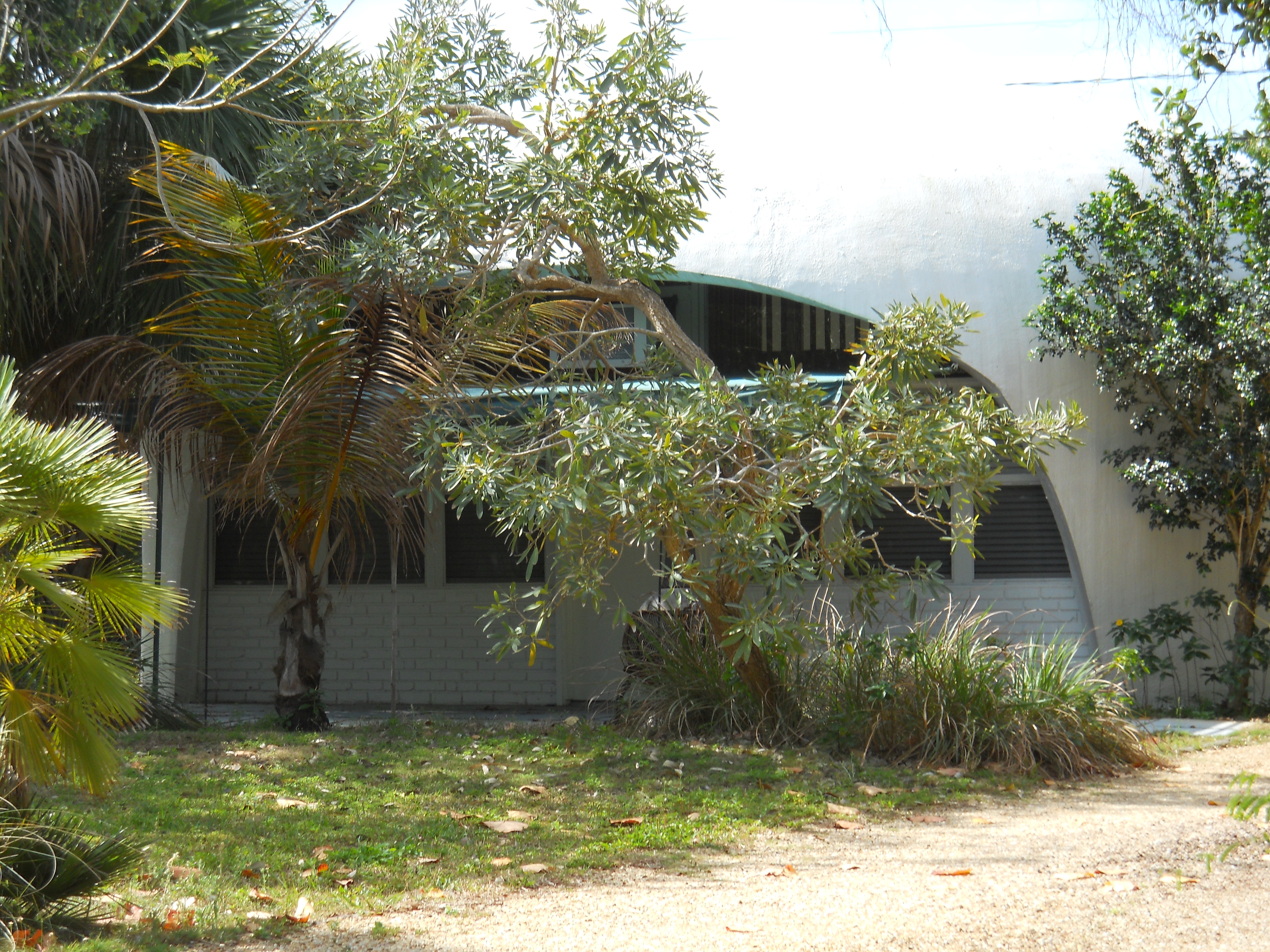 White-painted Bubble House at 9086 SE Venus Street, Hobe Sound, Martin County, Florida: Another closeup